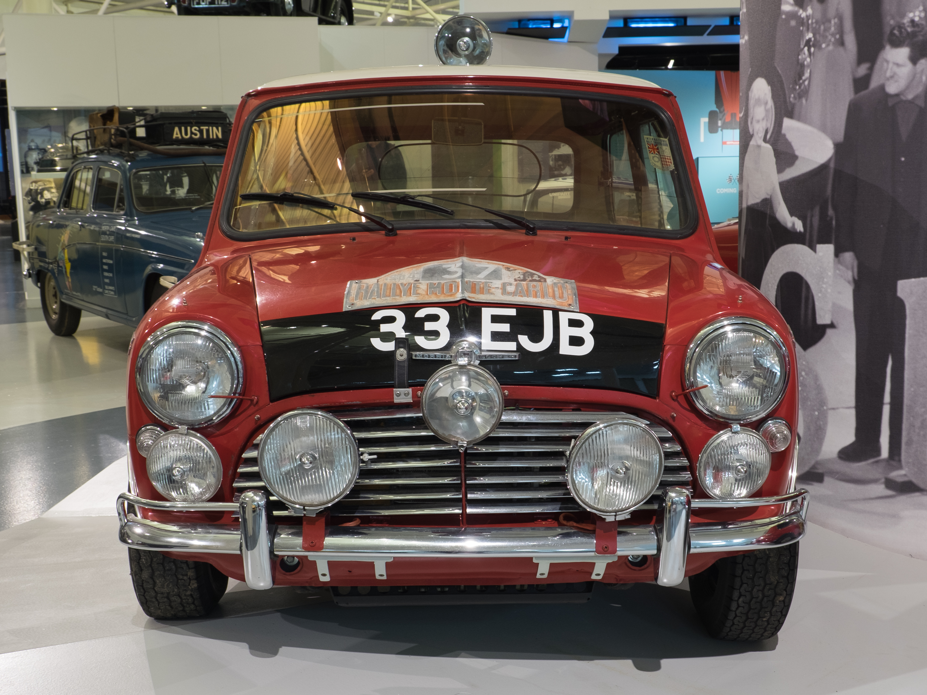 A 1963 Mini Cooper S. This car, which was one of the cars prepared by the BMC competitions department, won outright victory in the 1964 Monte Carlo Rally. It was crewed by Paddy Hopkirk and Henry Liddon. This vehicle is kept at the British Motor Museum, Gaydon, UK.